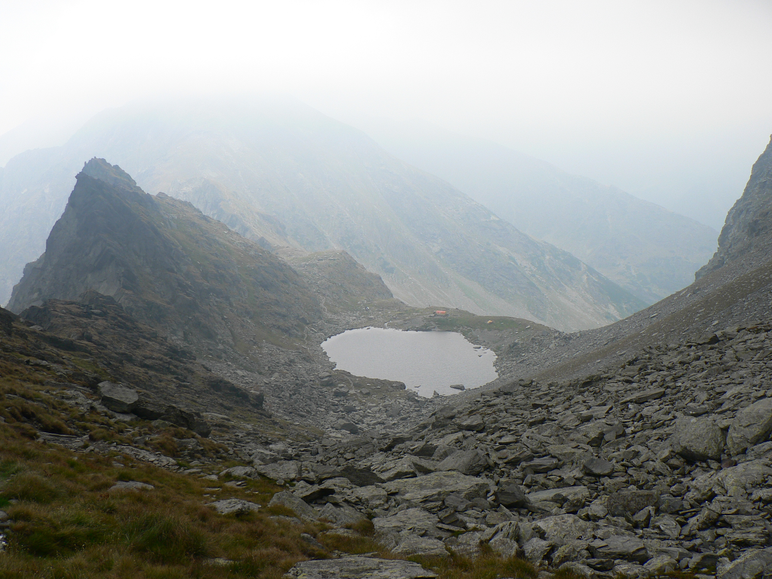 Fagaras Mountains, September 2009